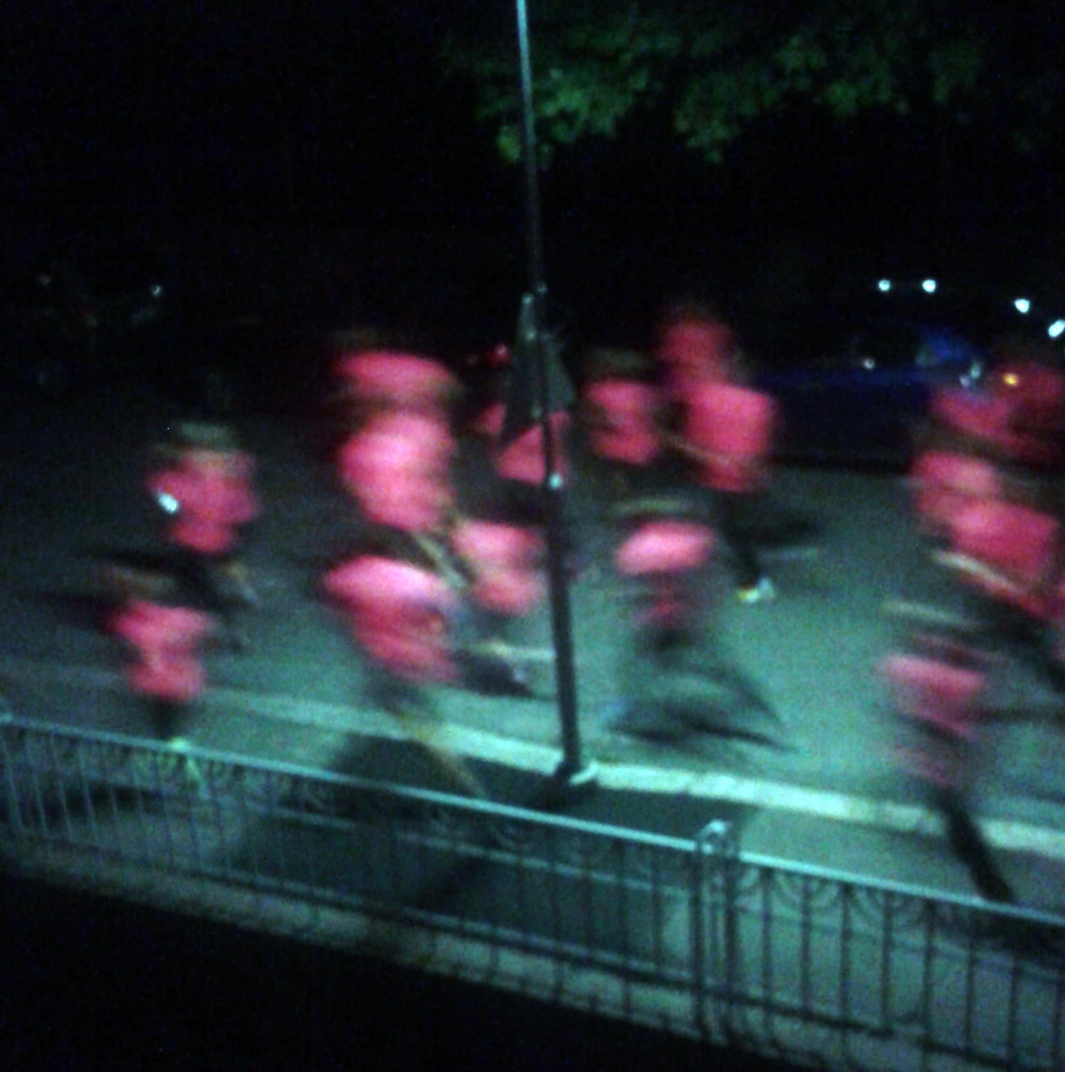 Runners during the annual Midnight Run, Helsinki, 2014